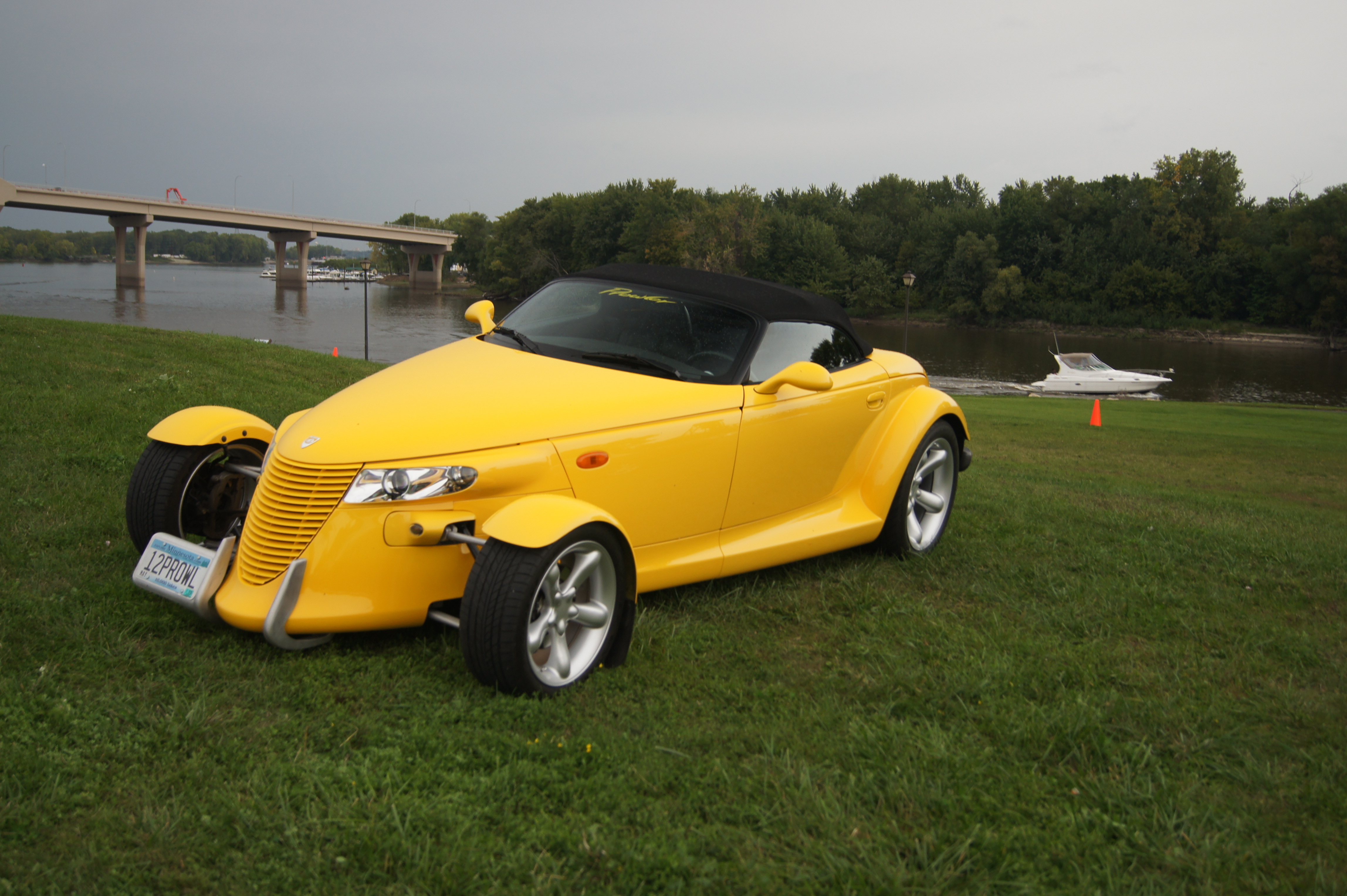 9th Annual Saturday Night Cruise-In September 20,2014 Hastings, Minnesota My second time to this event and the second time I got rained on. It was nice before and after the rain though. I did miss quite a few great cars that left before I could capture them, including a white 1962 Imperial that I caught a glimpse of at "Back to the 50's" More of my car pictures at my Flickr site